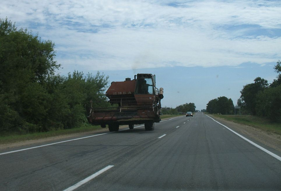 M8 higway in Homel region Belarus, about 1 to 2 km south of national road R43 crossing, driving towards south, approaching Jamnoje village.